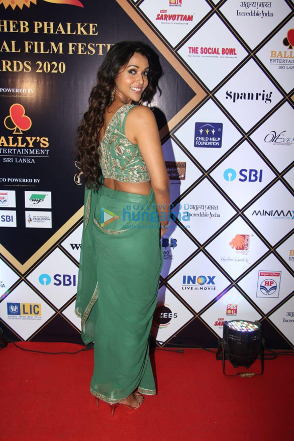 Anupriya Goenka, Dadasaheb Phalke International Film Festival Awards 2020